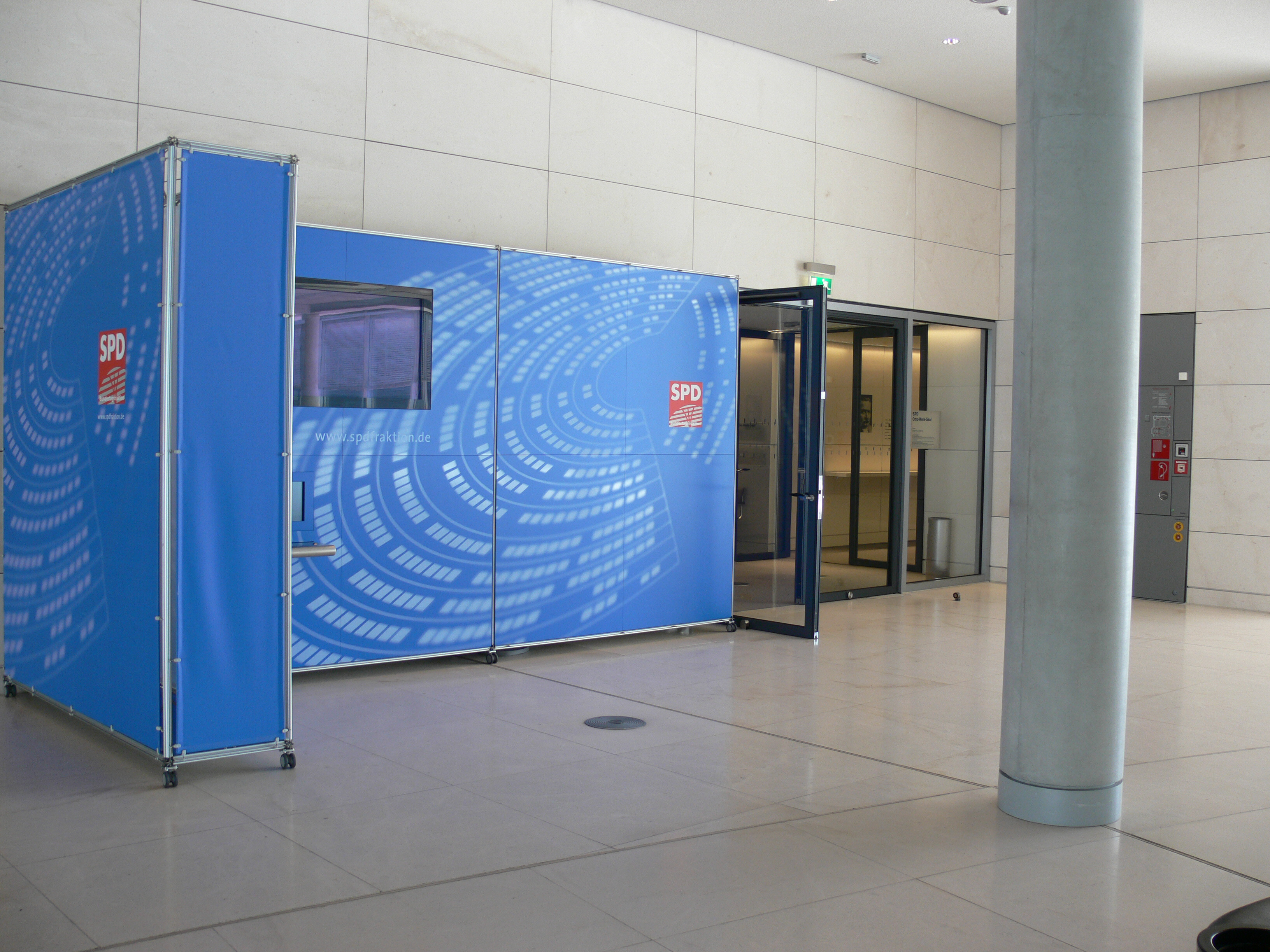 Entrance to SPD fraction rooms on the "fractions level"; Reichstag building, Berlin.